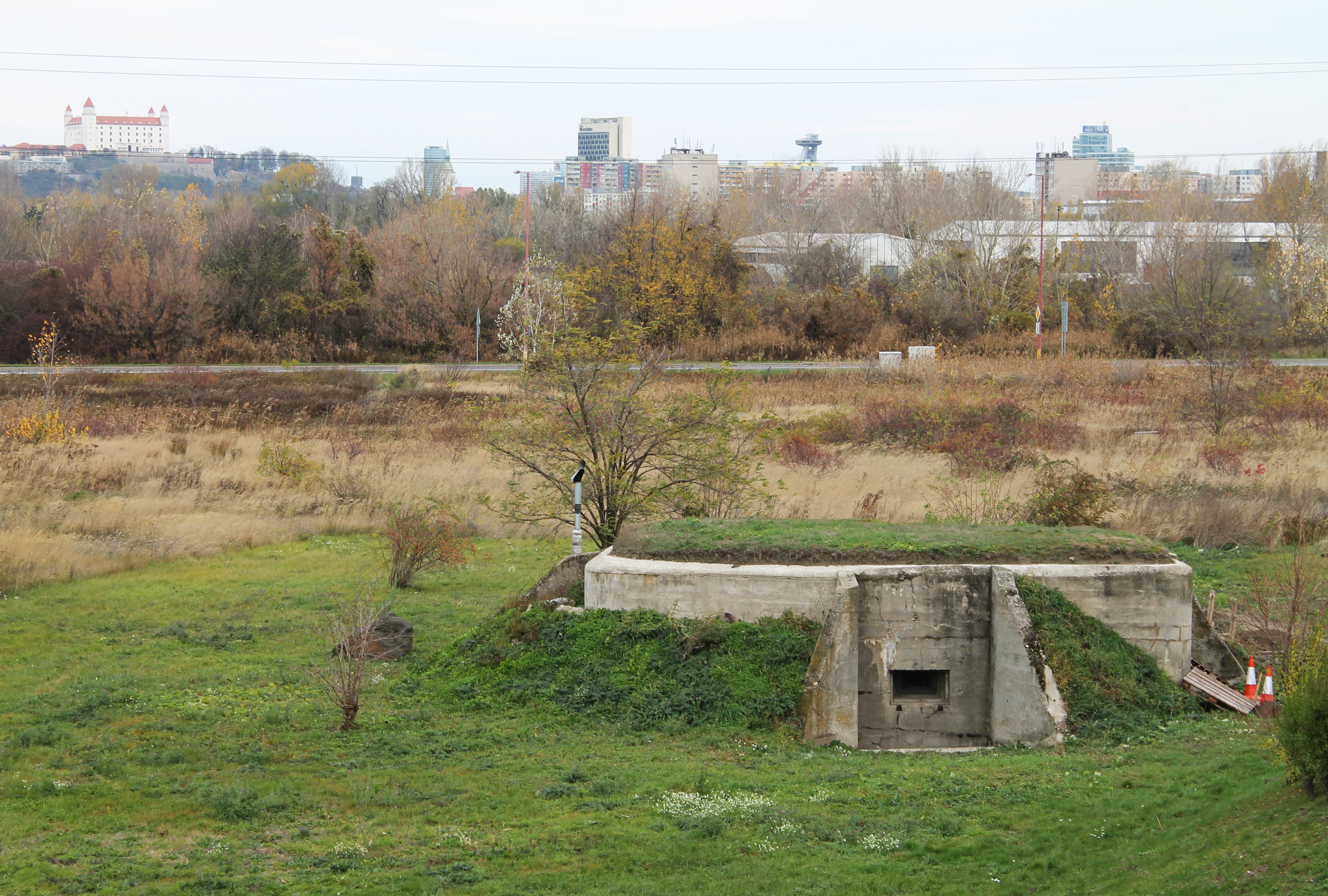 B-S 6 Vrba casemate, Bratislava, Slovakia